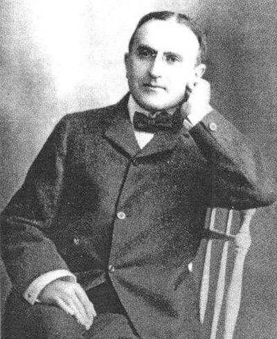 Undated photo of Samuel Newhouse, business person in the mining industry